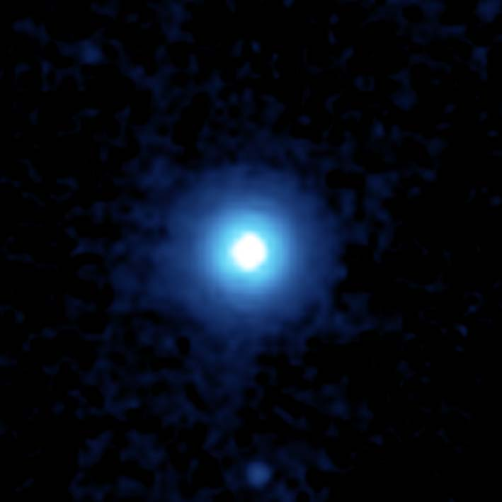 NASA's Spitzer Space Telescope recently captured this image of the star Vega, located 25 light years away in the constellation Lyra. Spitzer was able to detect the heat radiation from the cloud of dust around the star and found that the debris disc is much larger than previously thought. This side by side comparison, taken by Spitzer's multiband imaging photometer, shows the warm infrared glows from dust particles orbiting the star.